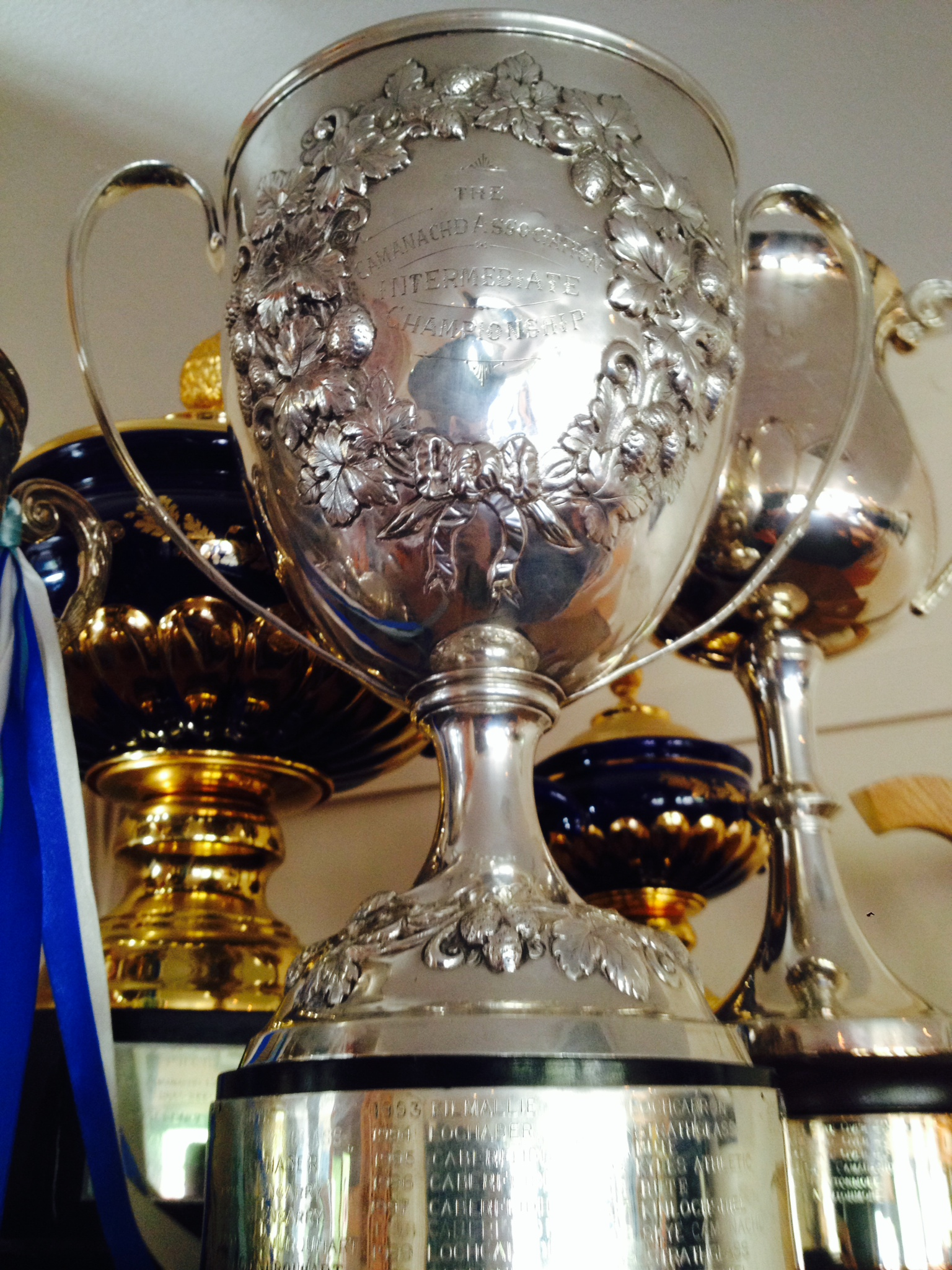 The Balliemore Cup, Shinty's intermediate championship trophy - taken in Portree